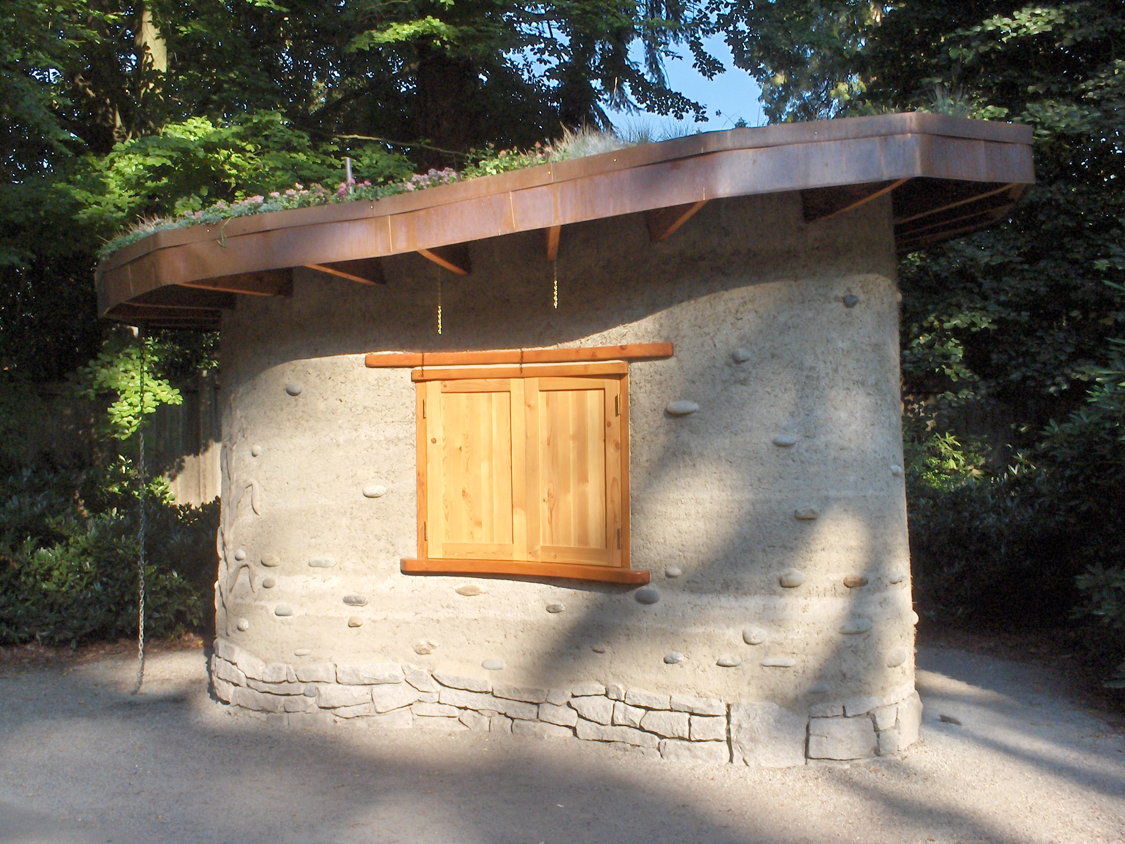 This was way too cool - a house made of cob, used to sell organic pop corn to help support the park's ecological programs.